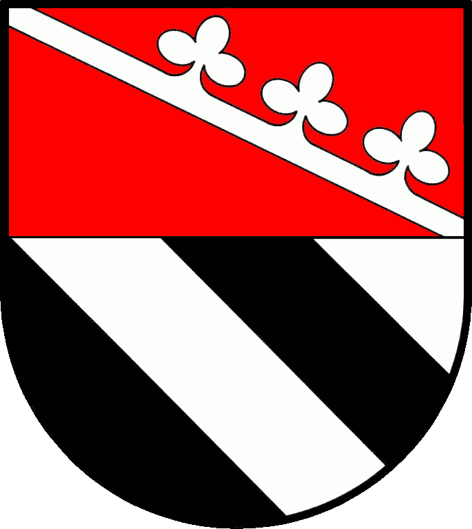 Coat of arms of the municipality Berkenthin in Schleswig-Holstein, Germany.